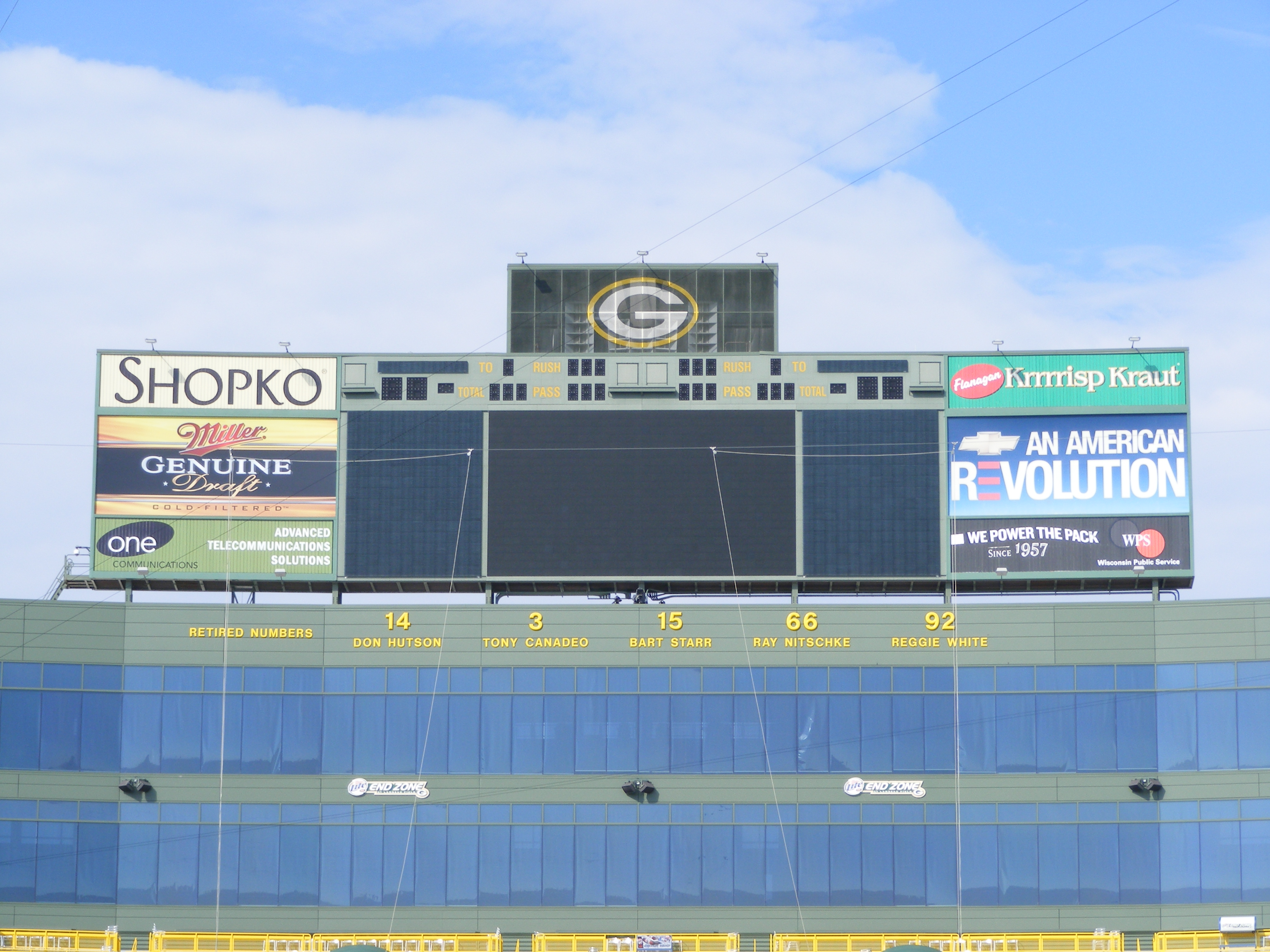 North end zone at Lambeau Field which displays the Packers retired numbers.